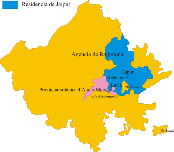 Jaipur agency of Rajputana